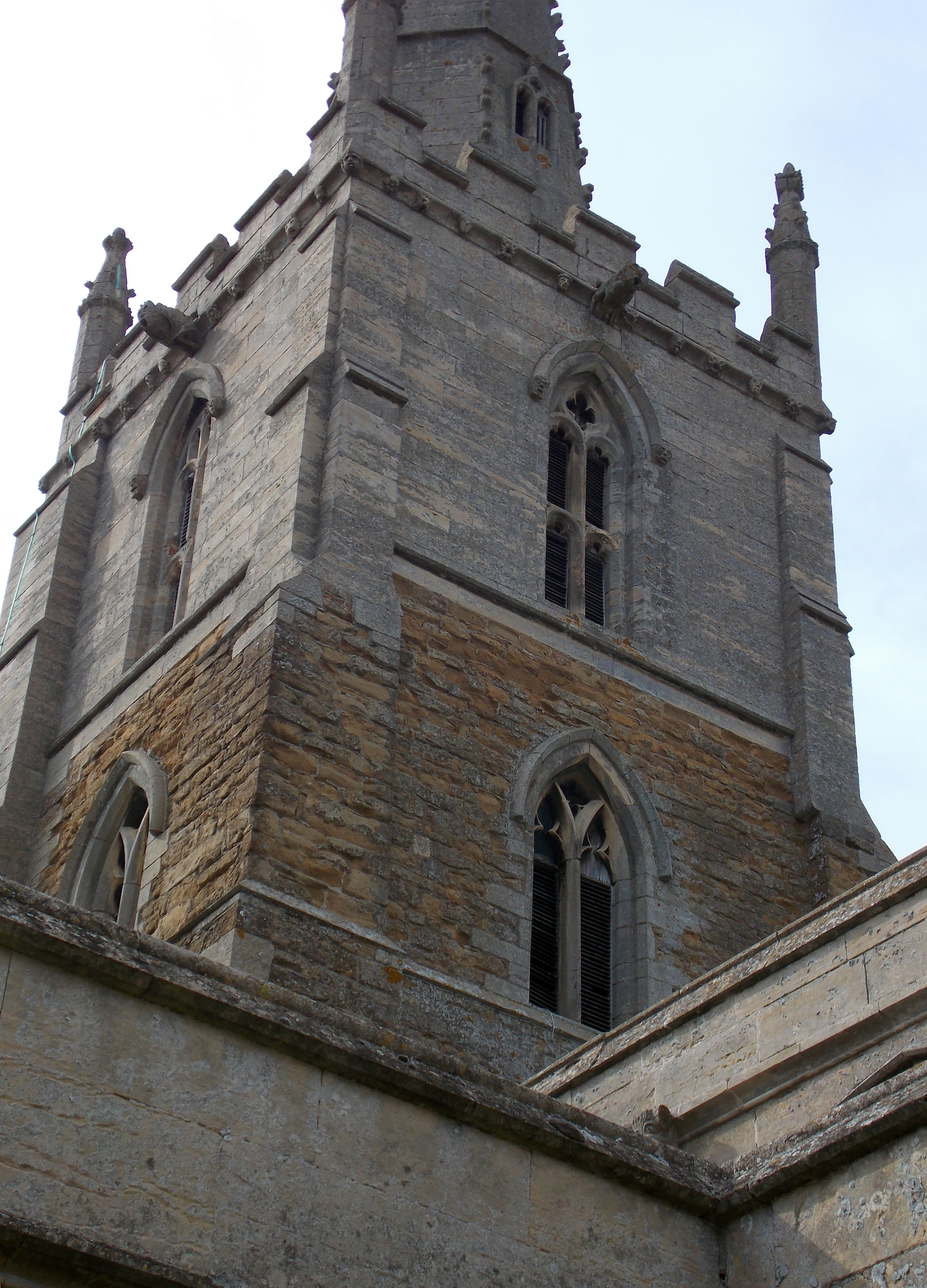 Tower of SS Mary and Peter's parish church, Harlaxton, Lincolnshire, seen from the southeast